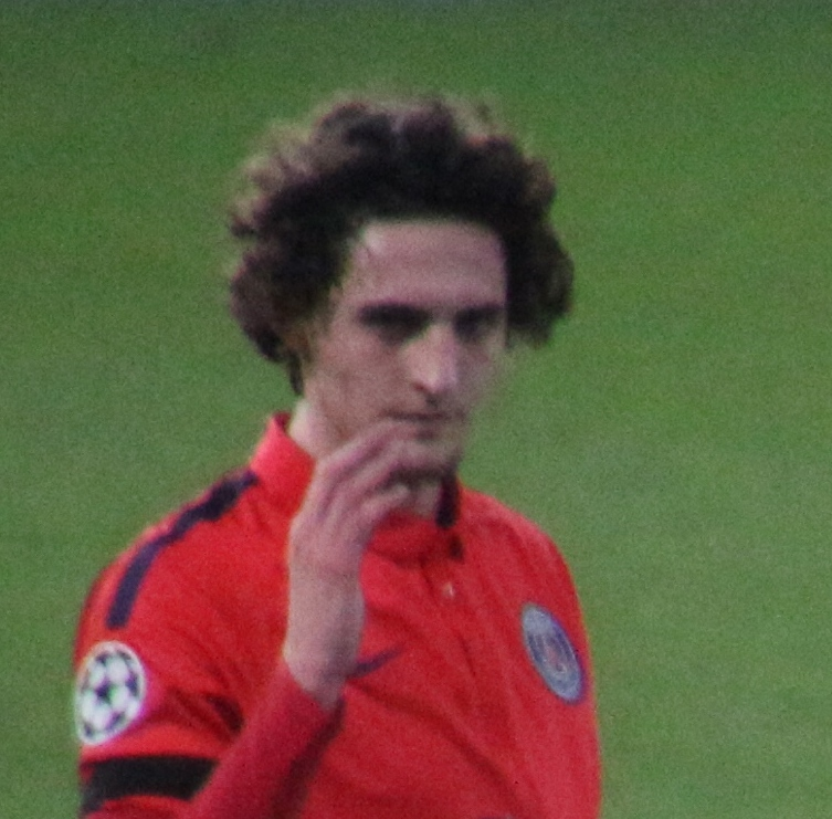 Chelsea 2 PSG 2 (Agg 3-3)